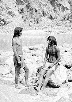 Two Mohave braves dressed in loincloths; full- length, standing, western Arizona.